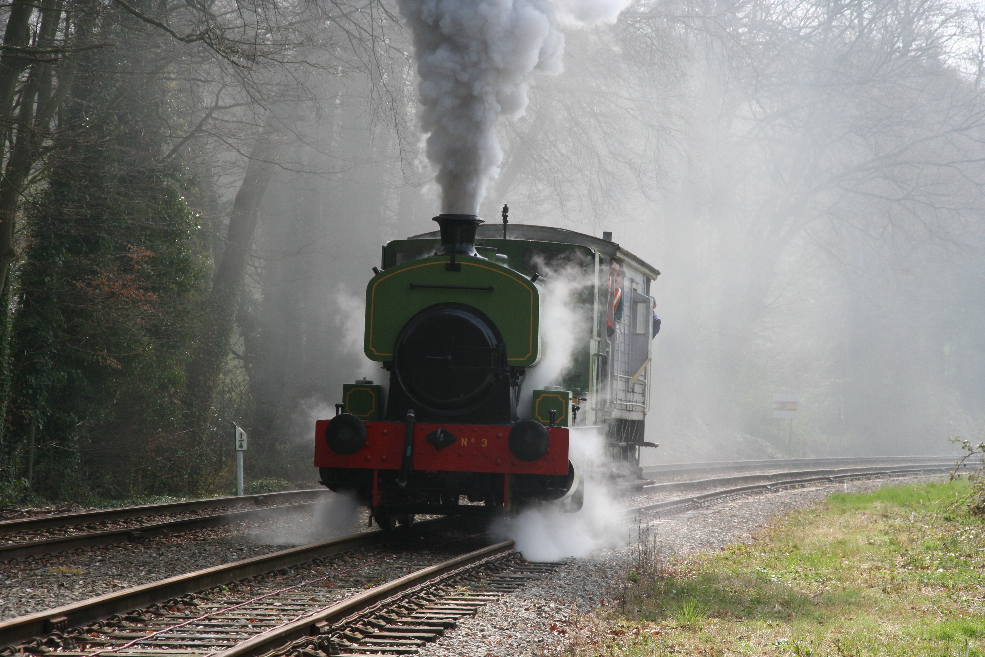 Ferrybridge No.3 on it's first test run to Gorsey Bank after two years total rebuild on the Ecclesbourne Valley Railway.